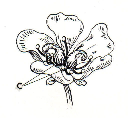 line art drawing of carpel.